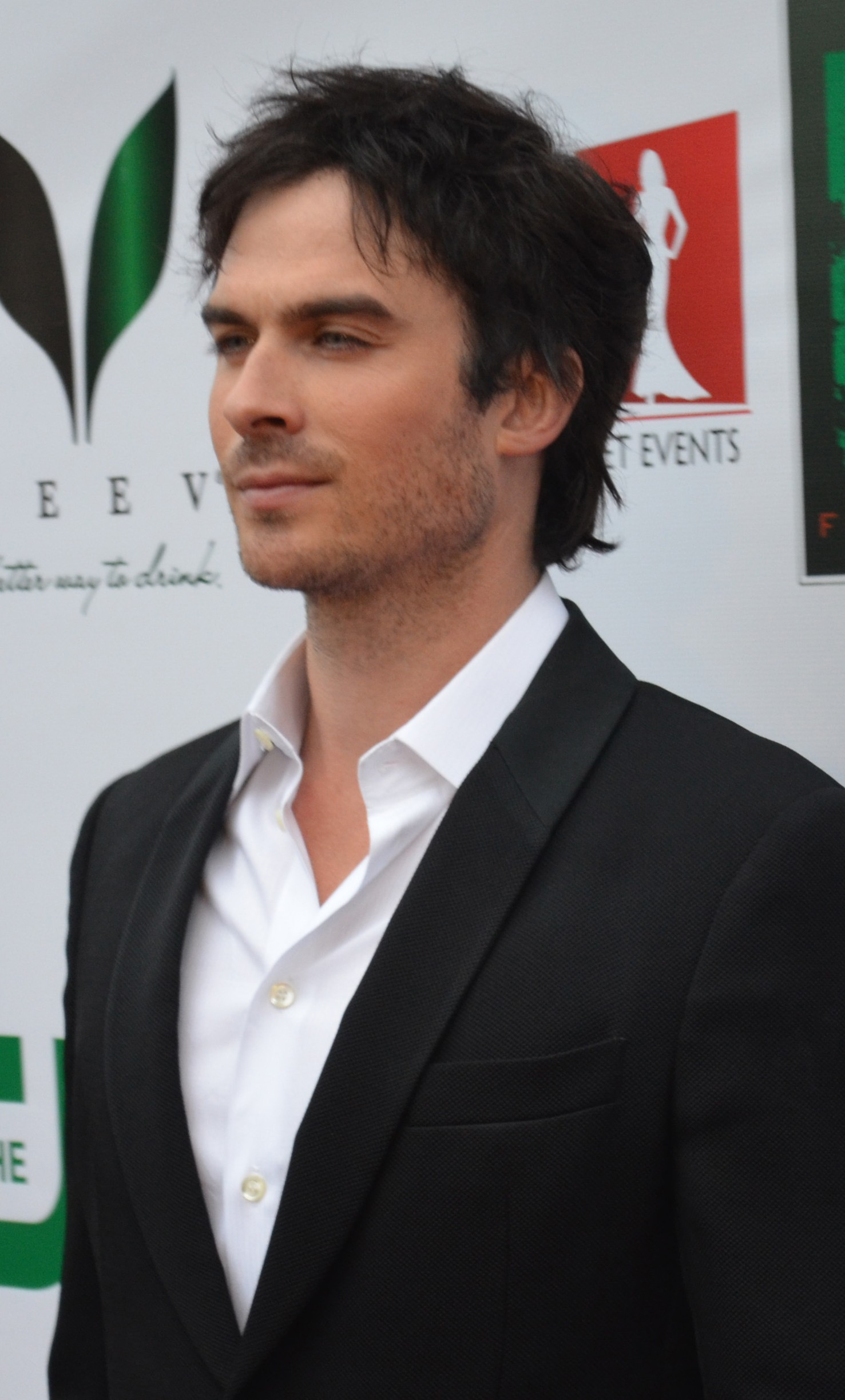 Actor Ian Somerhalder at Ian Somerhalder Foundation's Influence Affair Red Carpet.